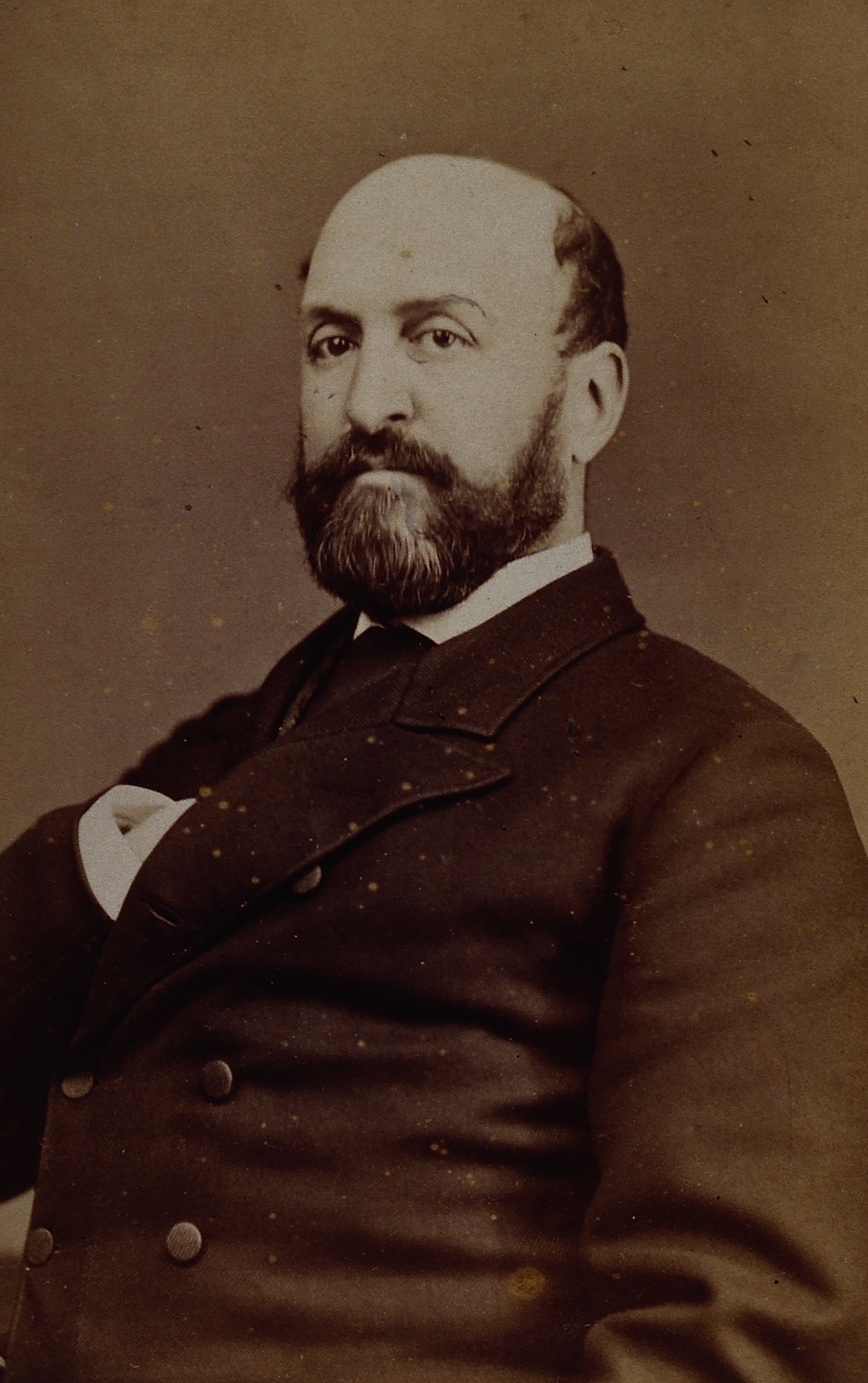 St. George Jackson Mivart. Photograph by Barraud & Jerrard. Iconographic Collections Keywords: portrait photographs